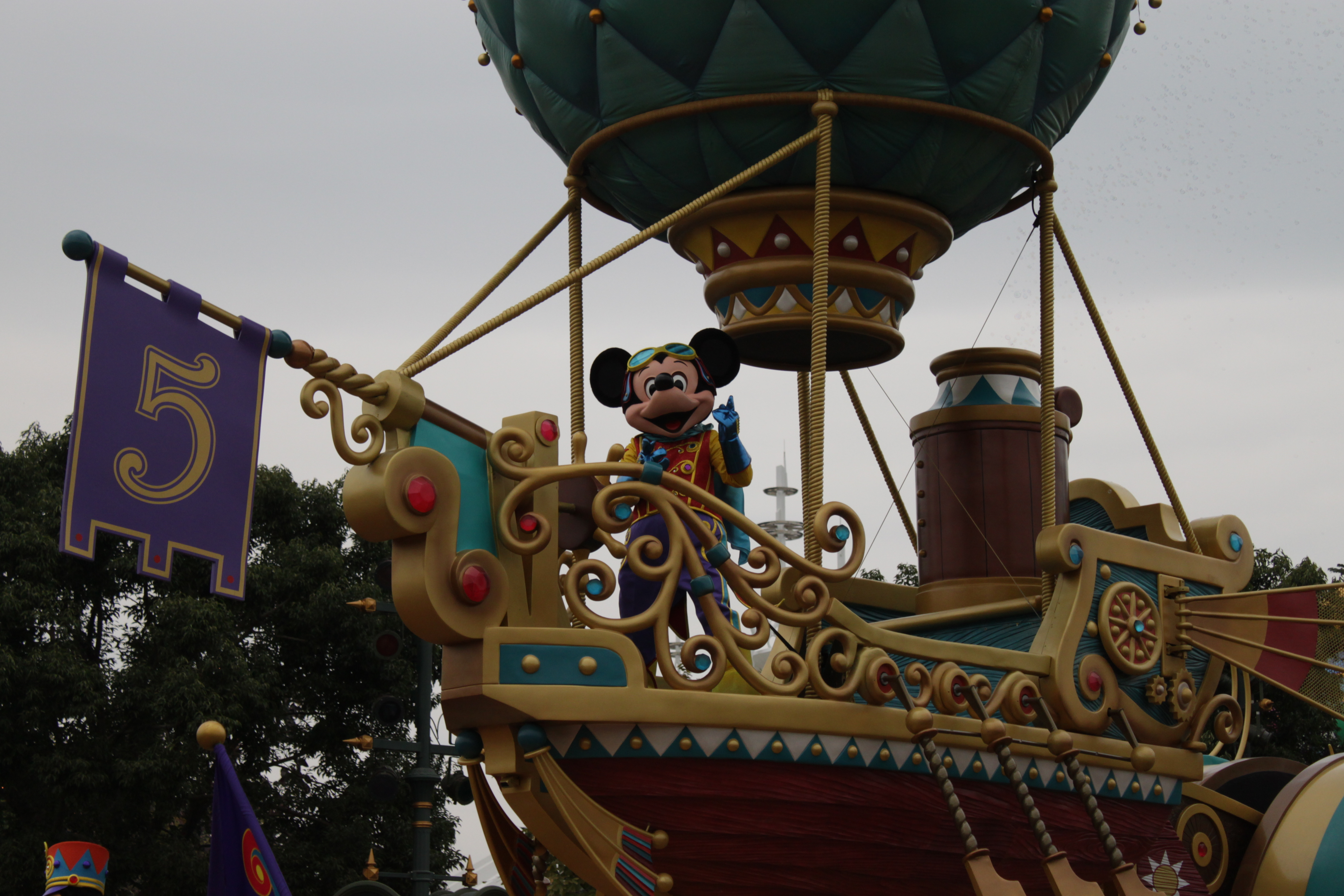 Mickey at Disney Flights of Fantasy